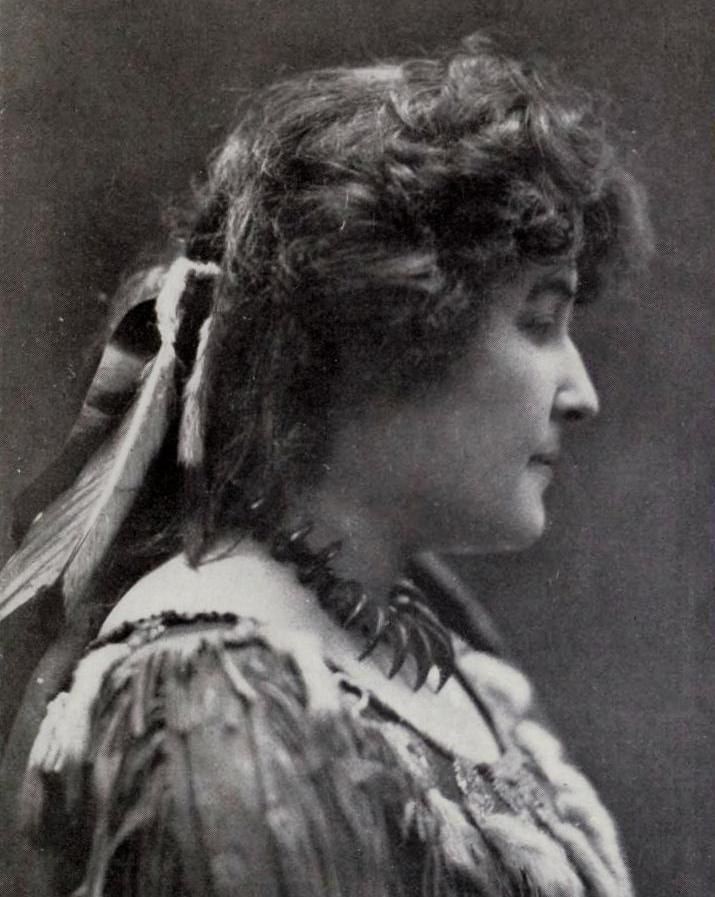 Portrait of the poet and writer Pauline Johnson (1861-1913) which appeared in a posthumous collection of her poetry published in 1922